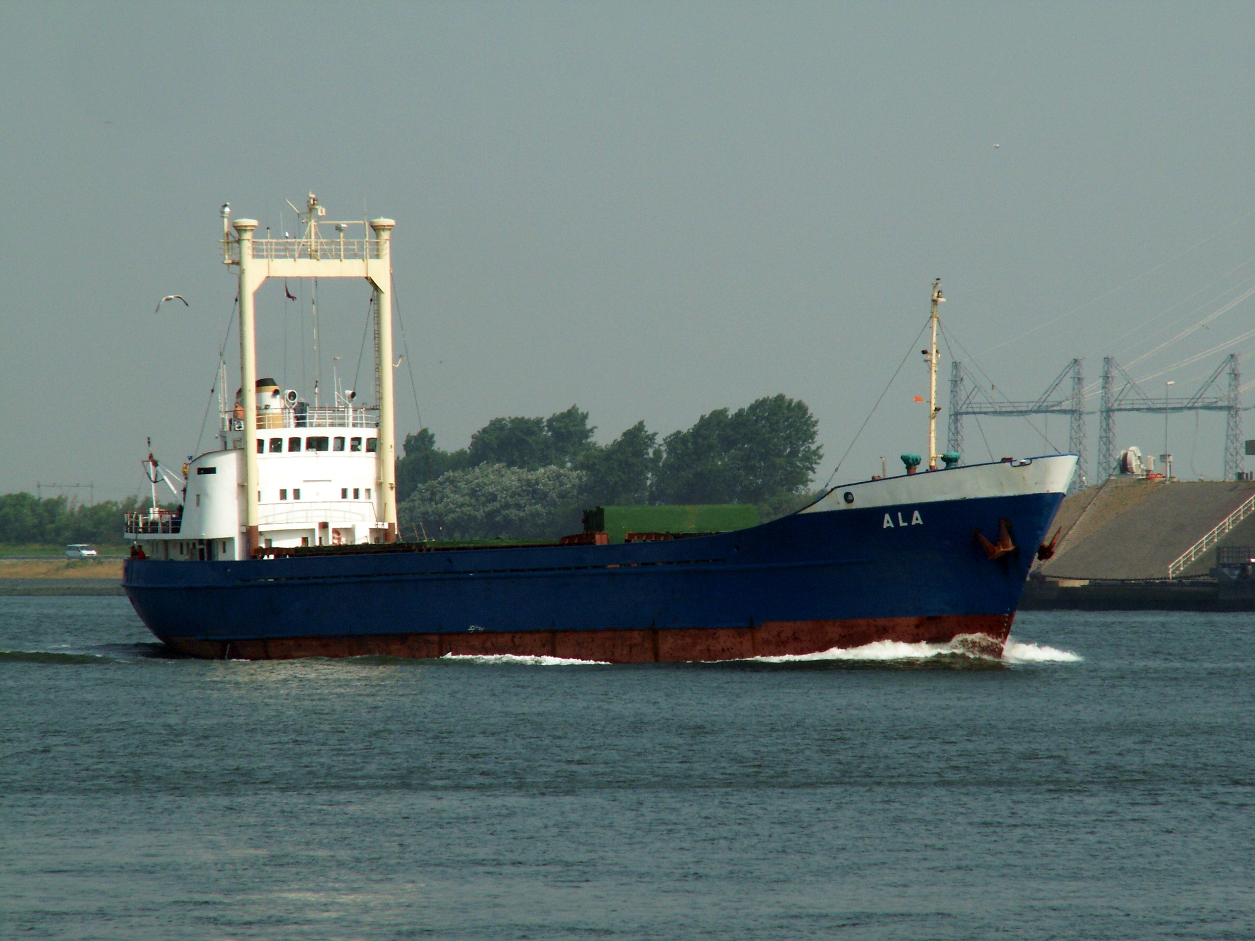 Port of Rotterdam, The Netherlands.